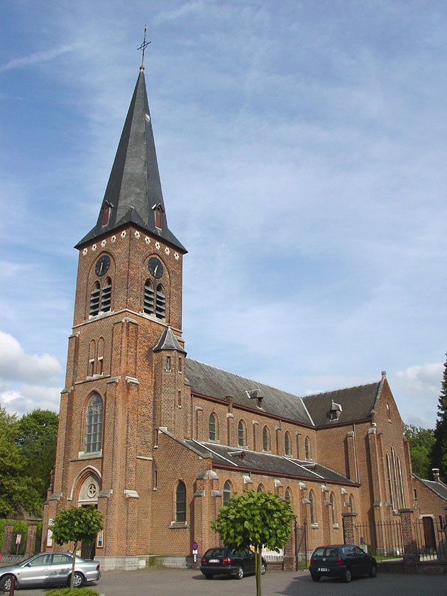 The Heilige Familie church, Schiplaken, Belgium